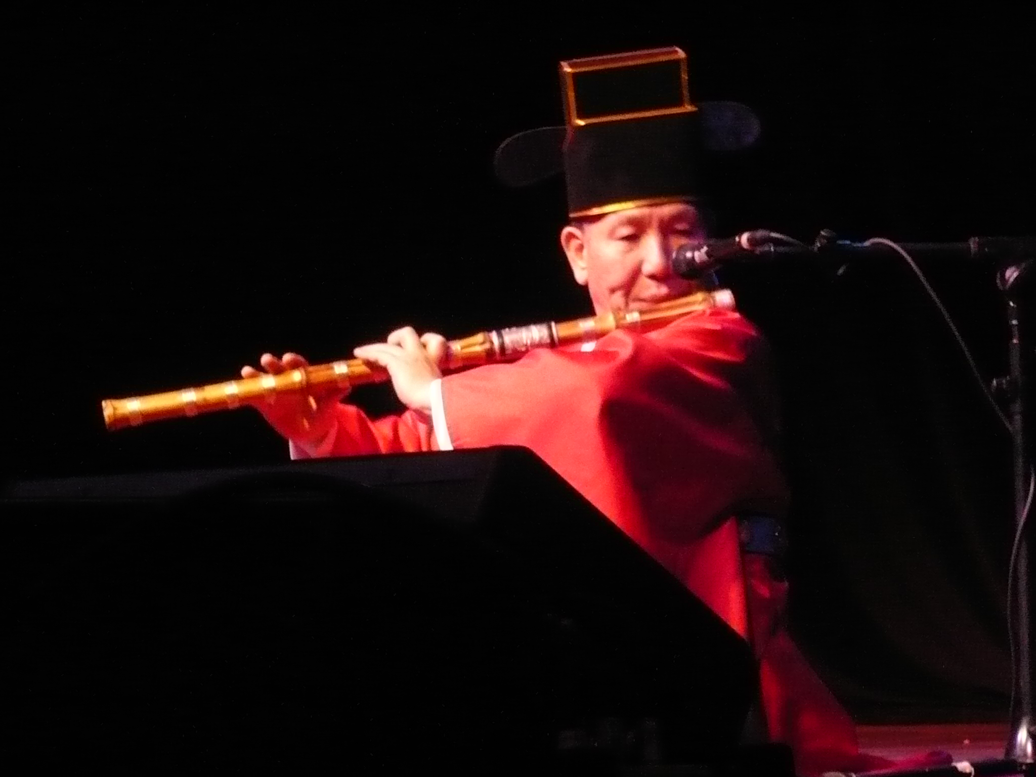 Park Yong-ho (professor at the School of Traditional Korean Arts, Korea National University of Arts in Seoul, South Korea) playing the daegeum (Korean transverse bamboo flute). Photo taken at the Kent Stage in Kent, Ohio, United States.